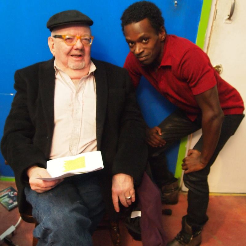 Indie filmmakers Sean Weathers on the right along with Joel M. Reed on the left from the set of "The Fappening."